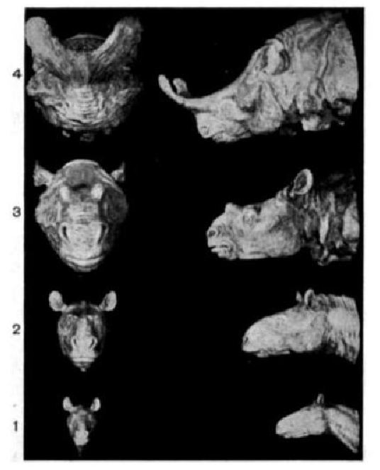 Diagram of the evolution of Titanothere horns. Top to bottom: Brontotherium, Protitanotherium, Manteoceras, Eotitanops.[1]